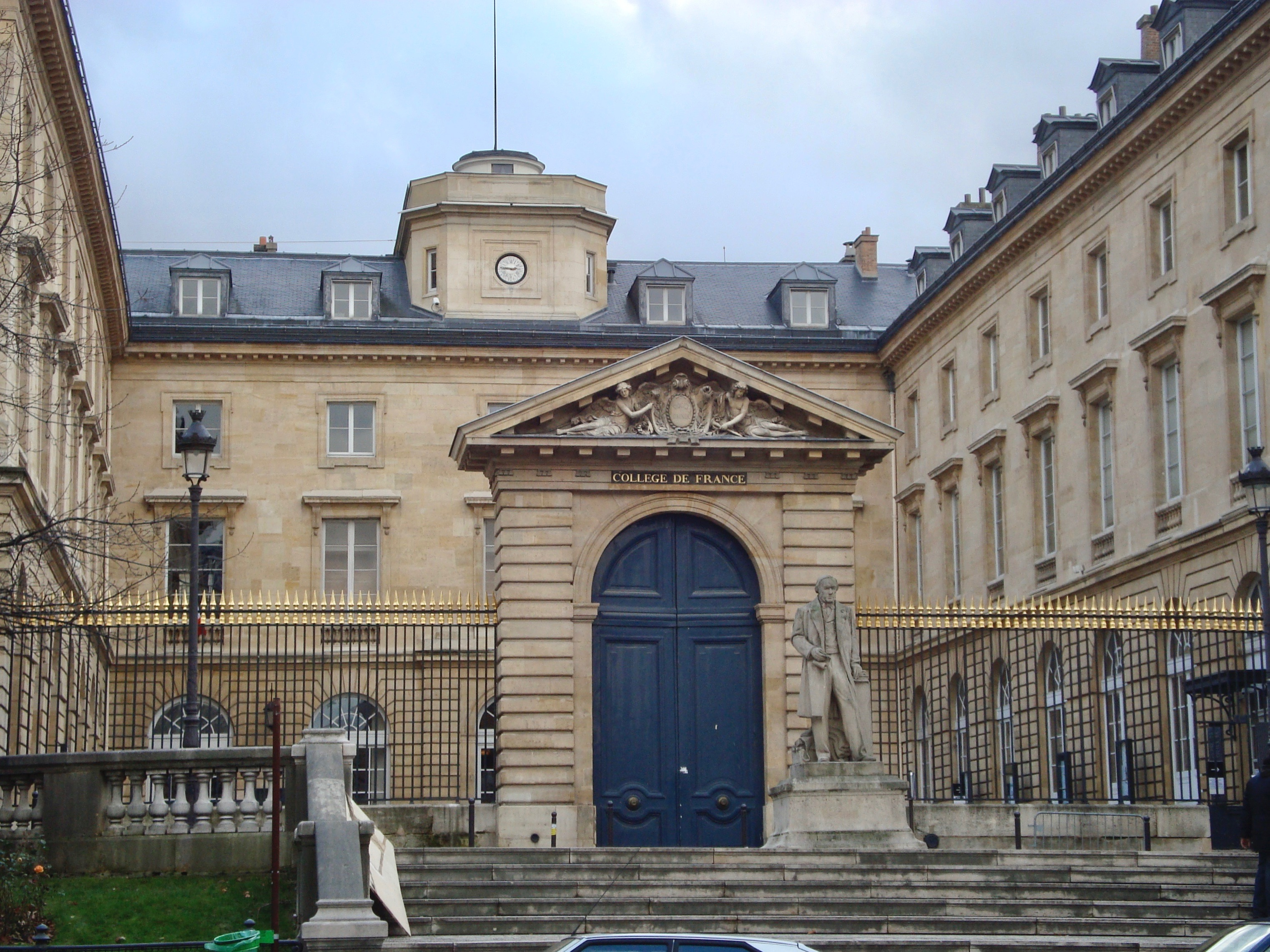 The Collège de France in Paris, main entrance